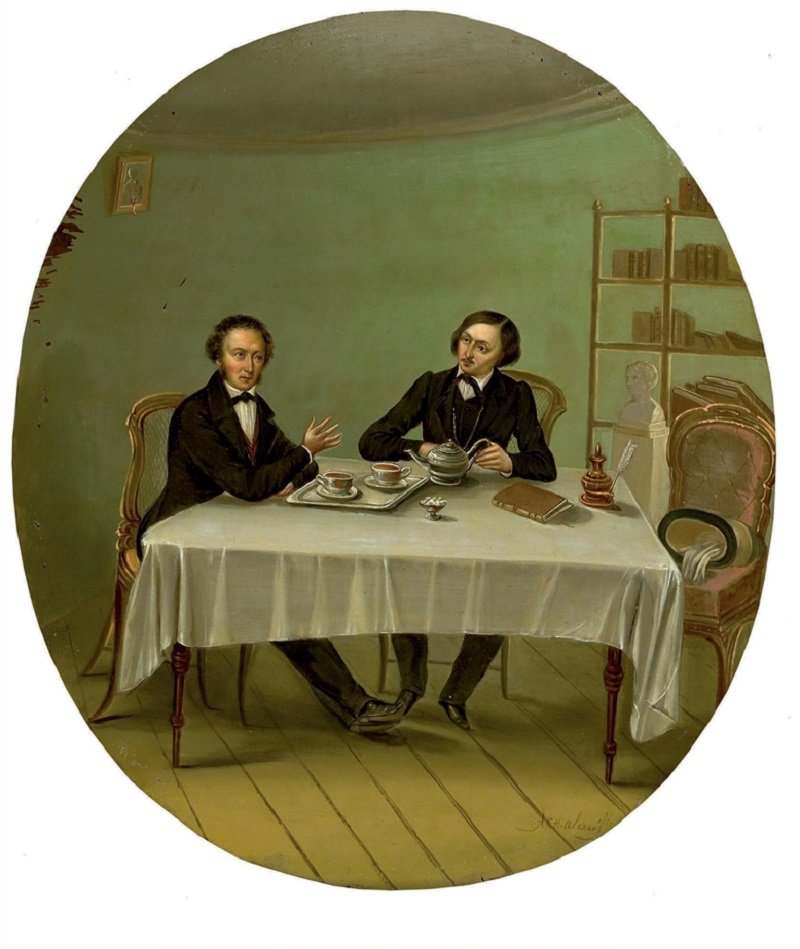 Nikolai Mikhailovich Alekseyev